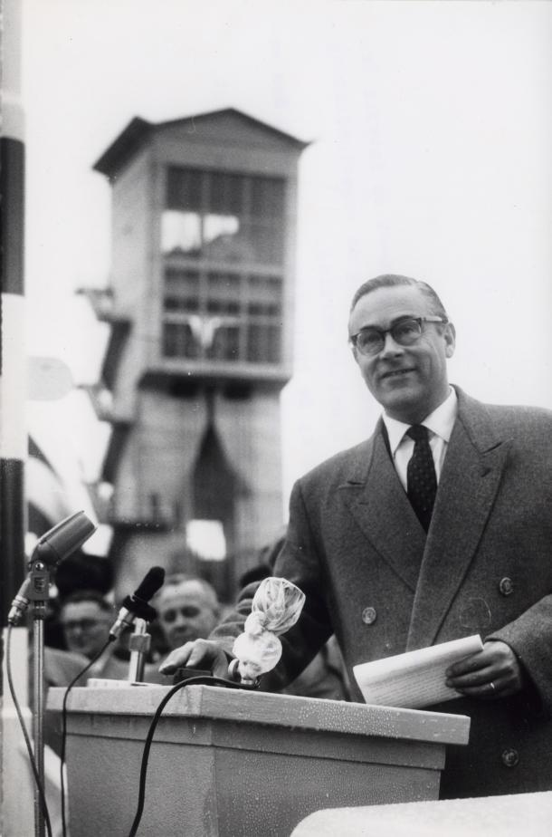 The Dutch minister of Transport and Waterways, Mr H.B.J. Witte (membre of the Catholic People's Party,) set a-going the floodgate (storm surge barrier) of the Hollandse IJssel at Krimpen aan de IJssel on October 22, 1958.